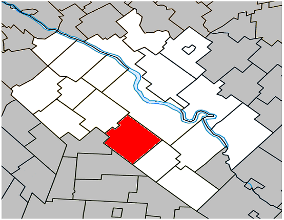 Location of Wickham, Quebec within Drummond Regional County Municipality.